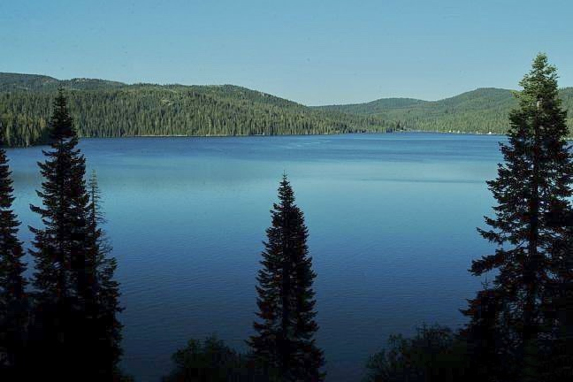 Bucks Lake — a reservoir in Plumas National Forest, Plumas County, California. Formed by a dam on Bucks Creek, a tributary of the Feather River. The dam is managed by the Pacific Gas and Electric Company.